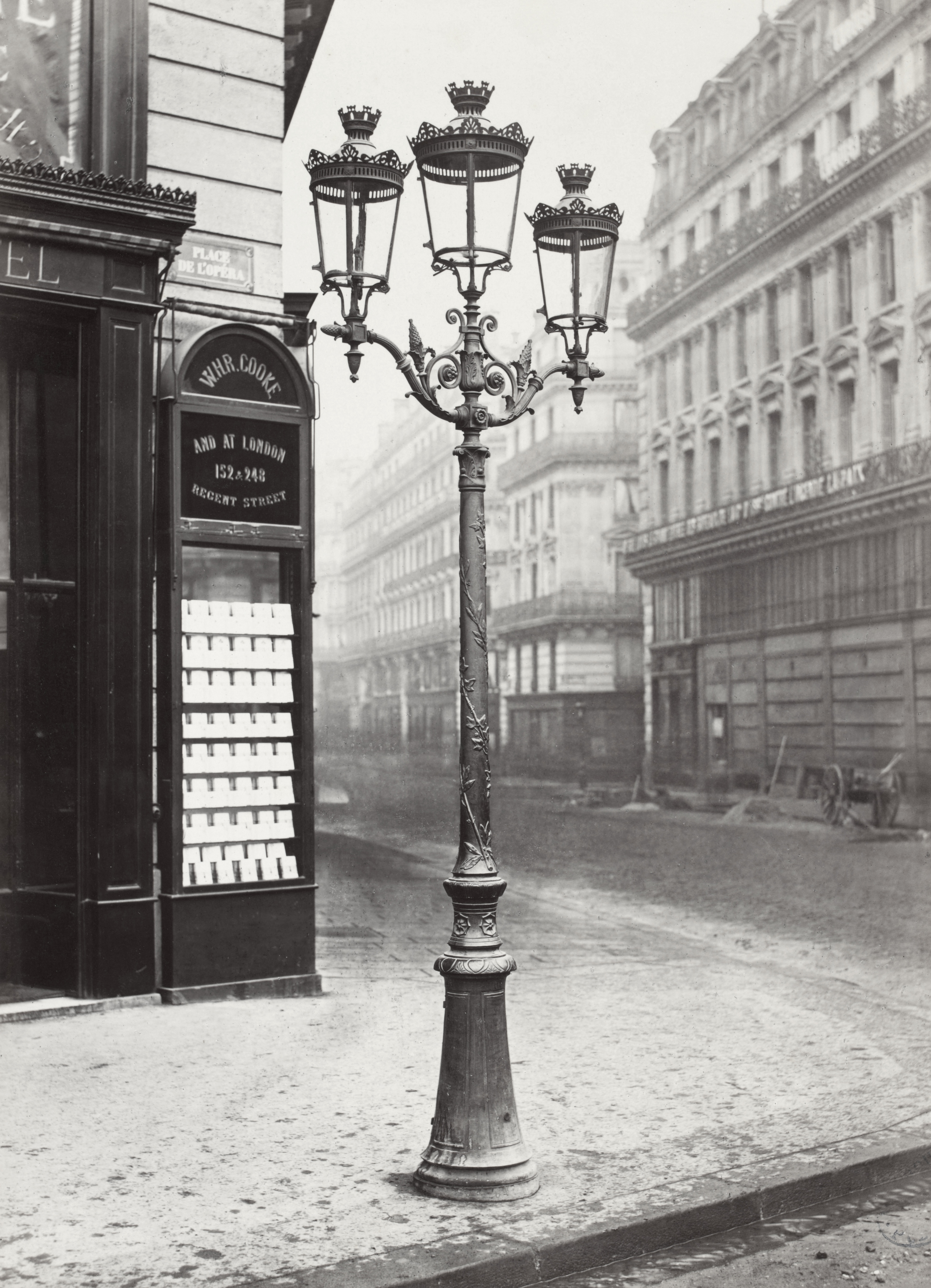 Oudry style lamp stand with three lamps on a street corner. Building immediately behind lamp stand has a plaque reading: WHR Cooke / And at London.